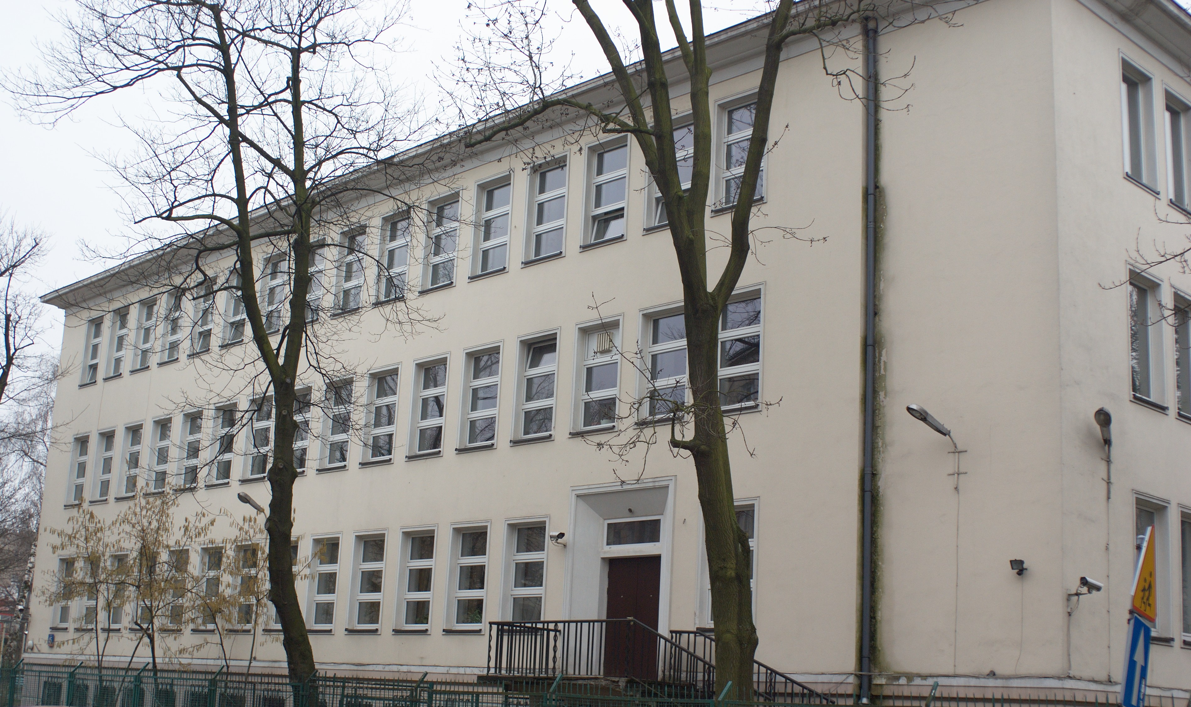 Russian High School in Warsaw, Poland